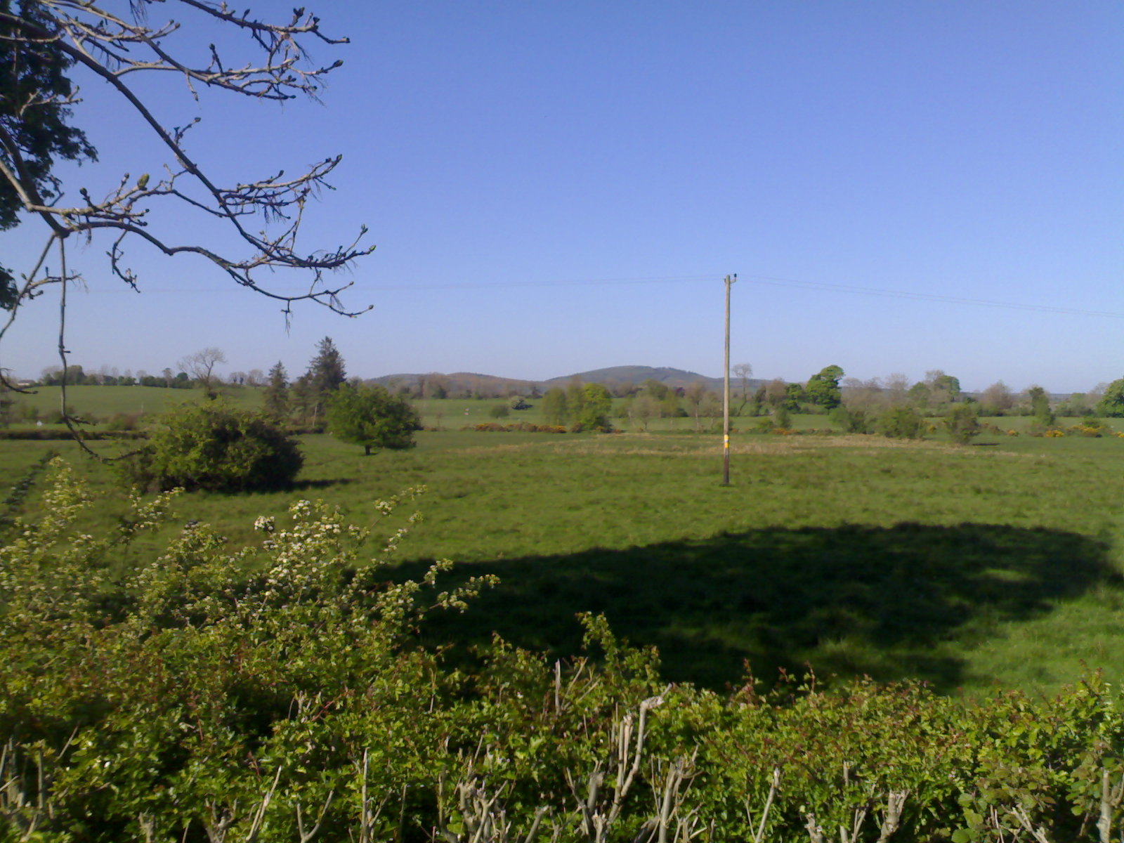 Mullaghmeen_Hills_Westmeath.jpg Camera Phone Own work Peter Gavigan May 2007